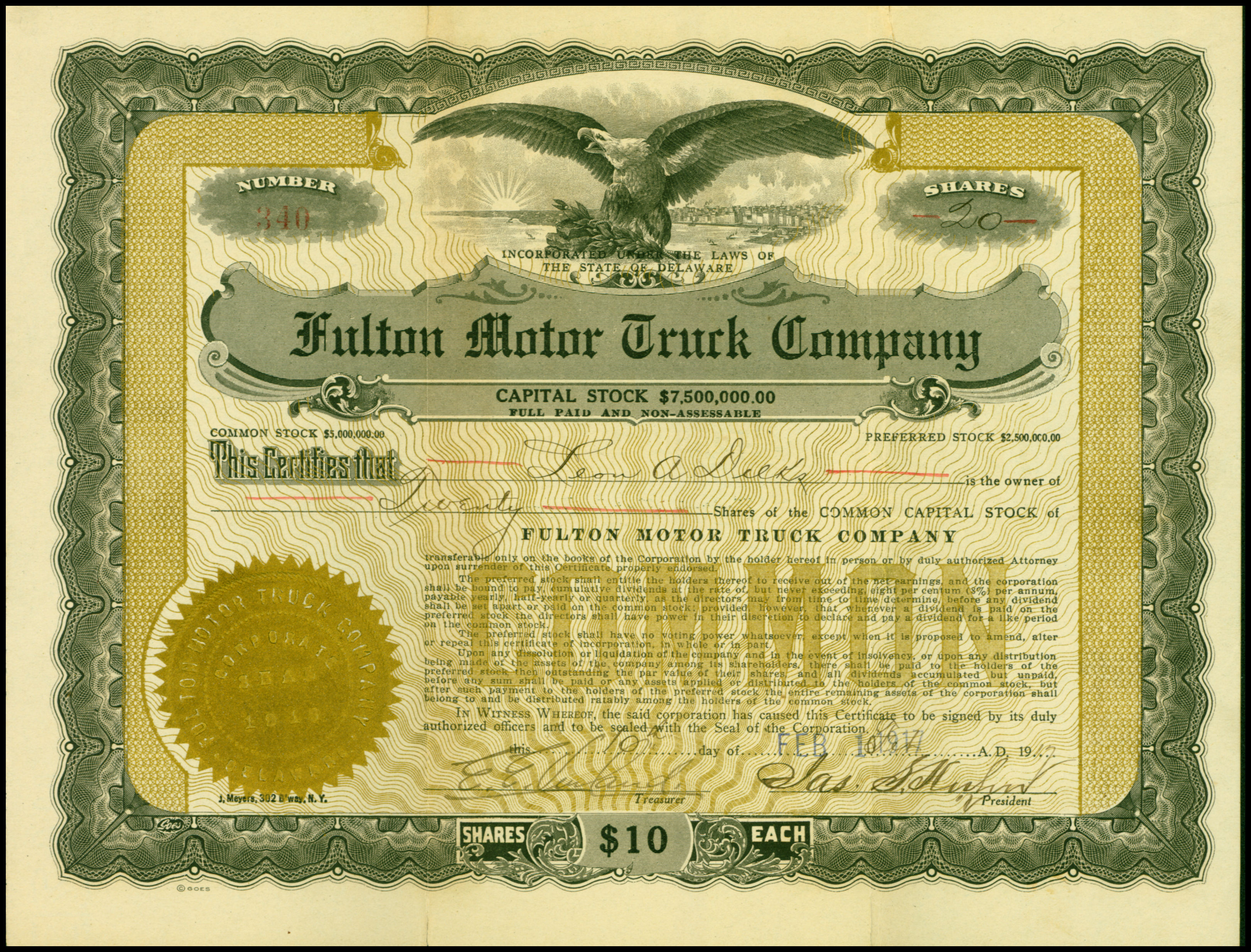 Share of the Fulton Motor Truck Company, issued 1. February 1917